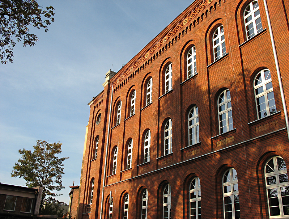 Western wall od 5th High School in Gliwice